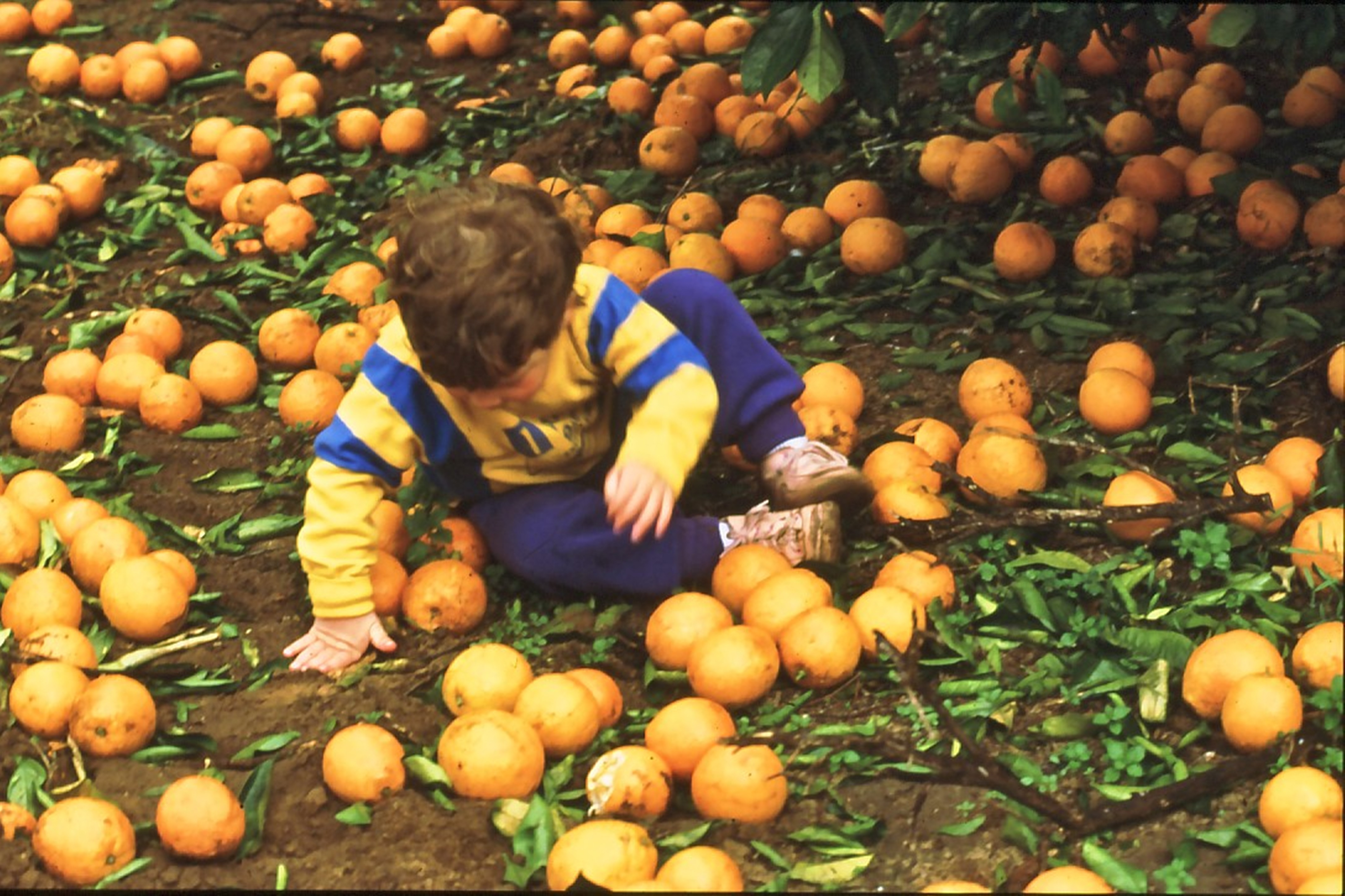 Gan-Shmuel - in the Gan Shmuel - Pardes 1987 1987, Education in Israel